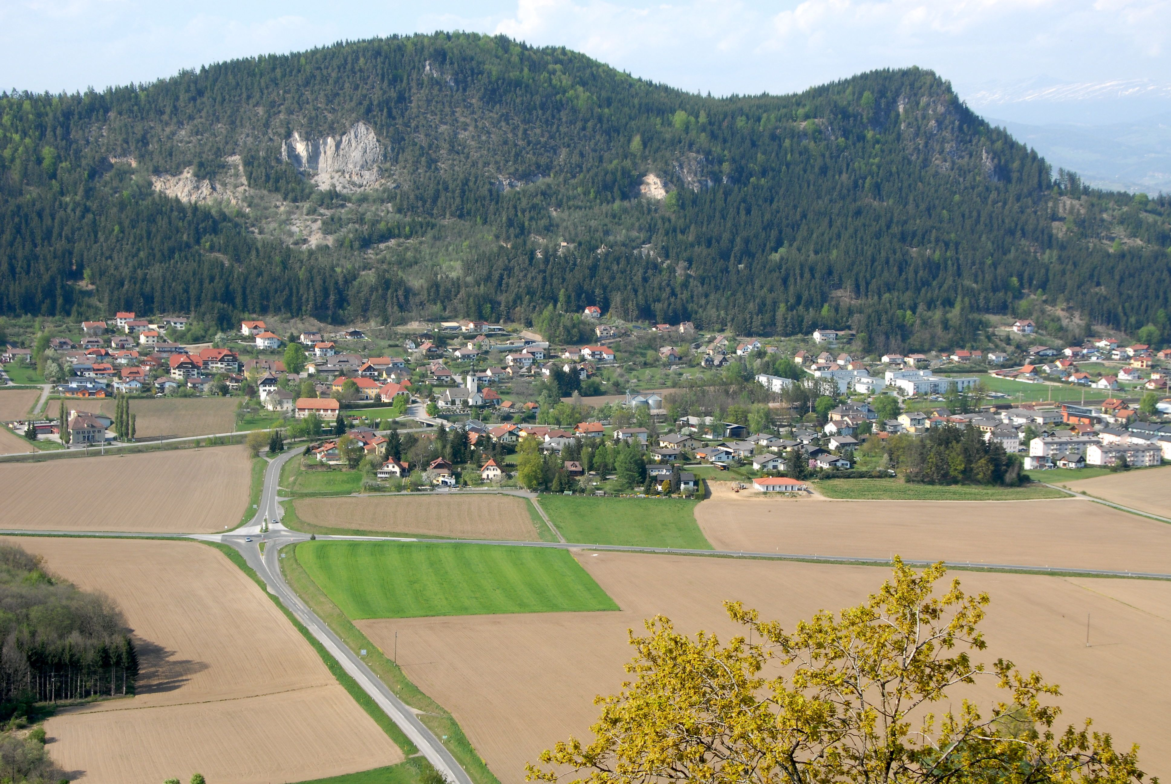 View from castle Hochosterwitz at Launsdorf, municipality Sankt Georgen am Laengsee, district Sankt Veit an der Glan, Carinthia, Austria, EU